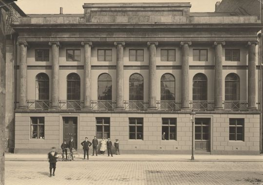 The building of the then closed Classenske Bibliotek (Classen Library) at 38 Amaliegade in Copenhagen, Denmark, photographed in th about 1900.